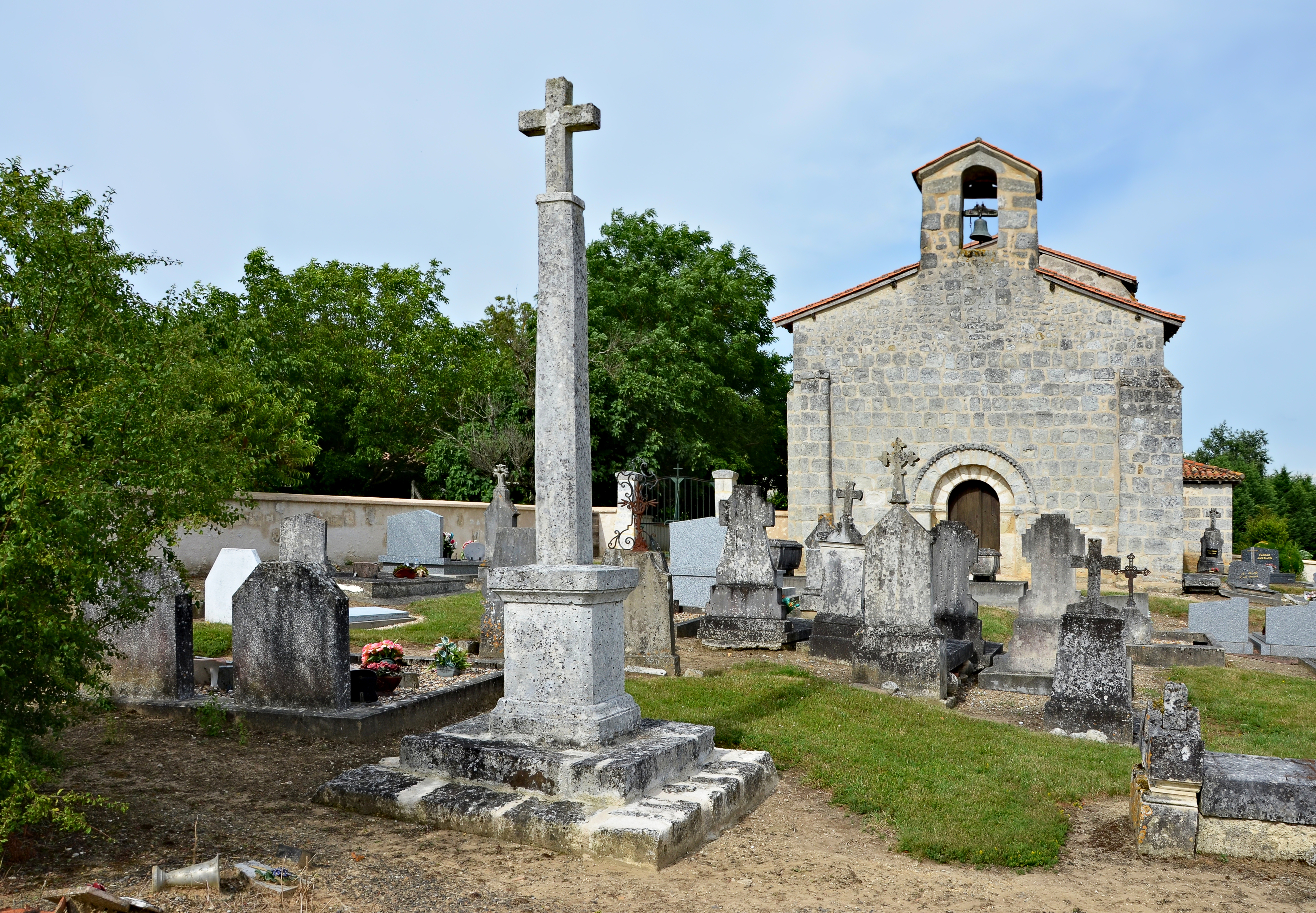 Cemetery cross and church facade of Martron, Boresse-et-Martron, Charente-Maritime, France.